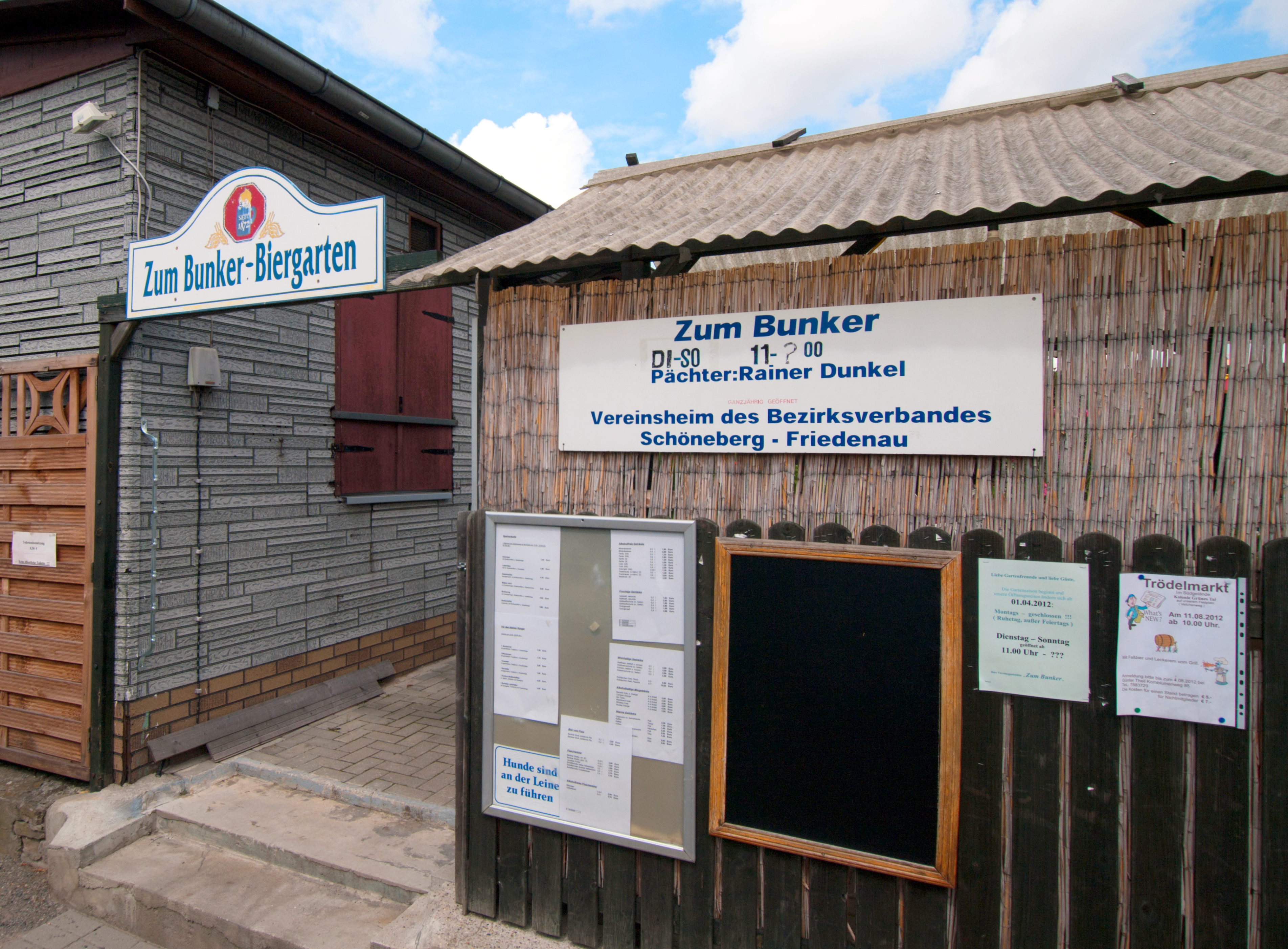 Pub of the garden colony Schöneberg-Südgelände.